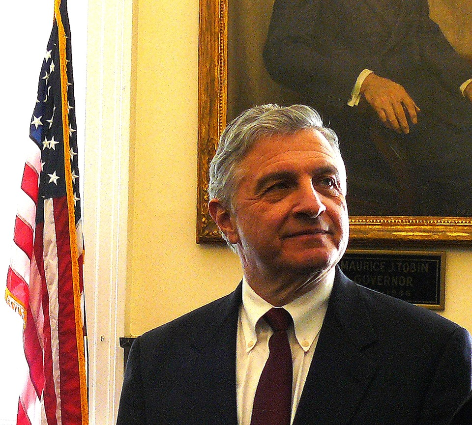 Mike Albano photo (2012)